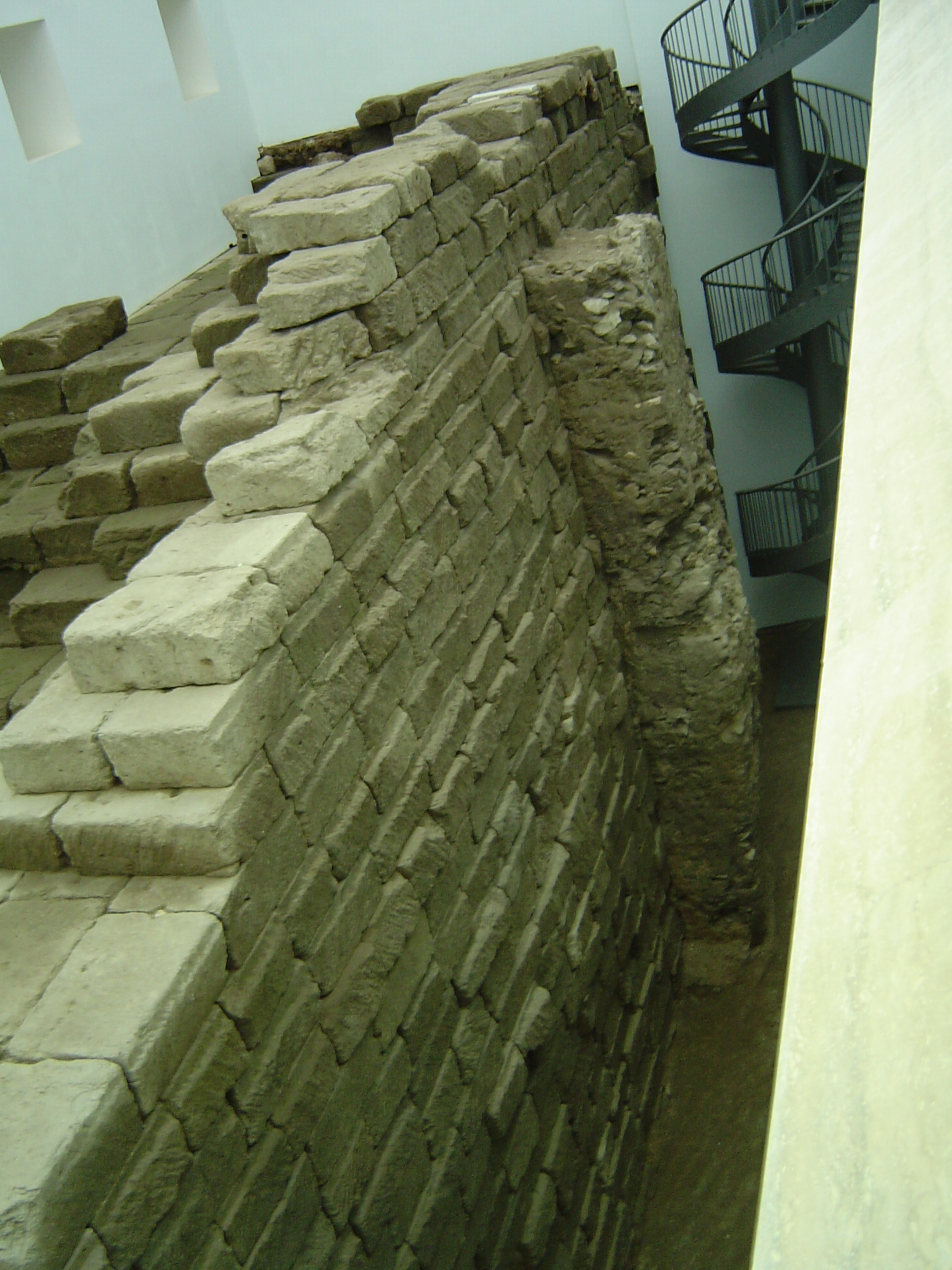 The foundations of the temple of Jupiter Optimus Maximus on the Capitoline hill in Rome. Made by Joris on 29-12-2005